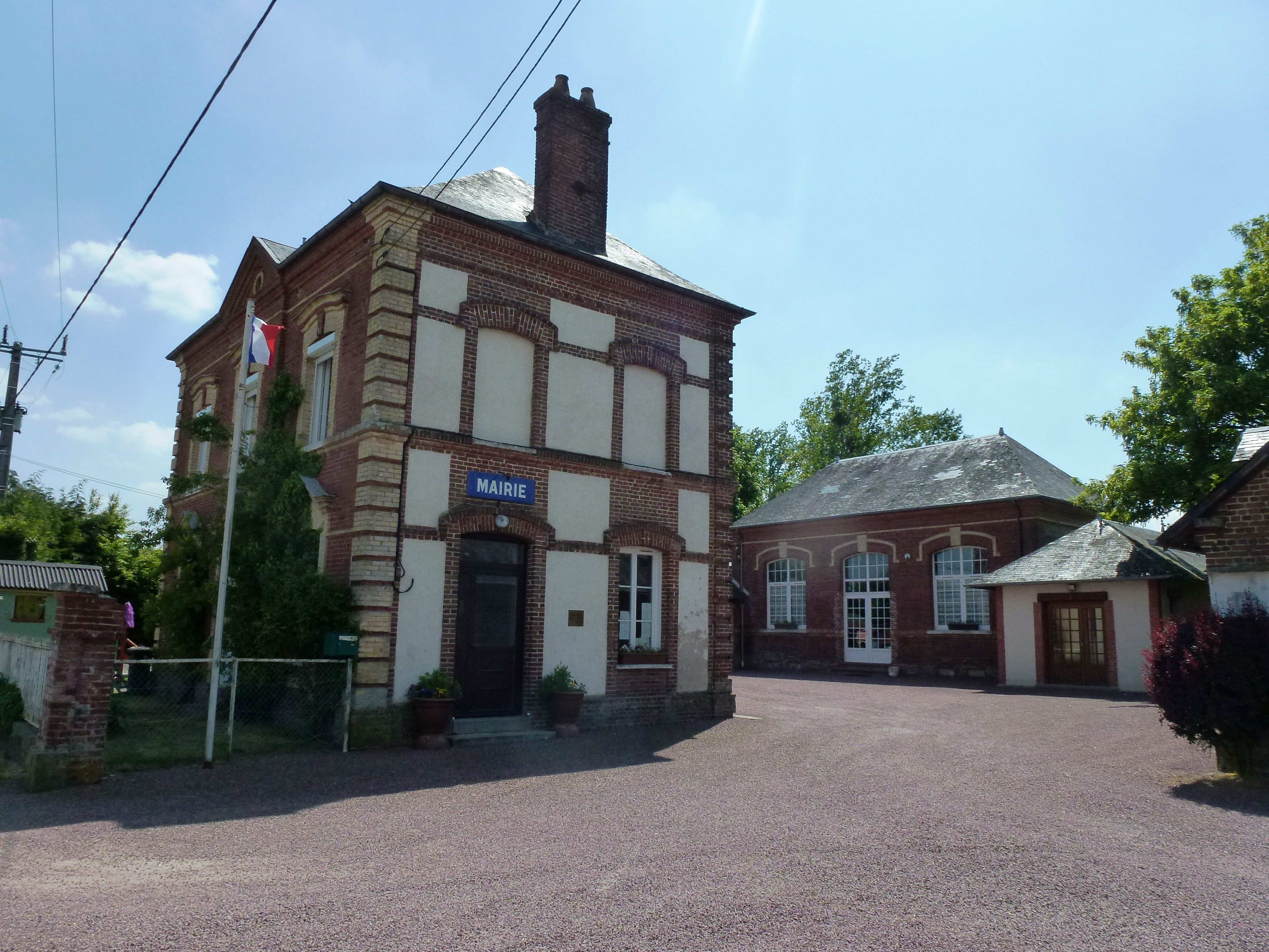 Piencourt (Eure) mairie - école